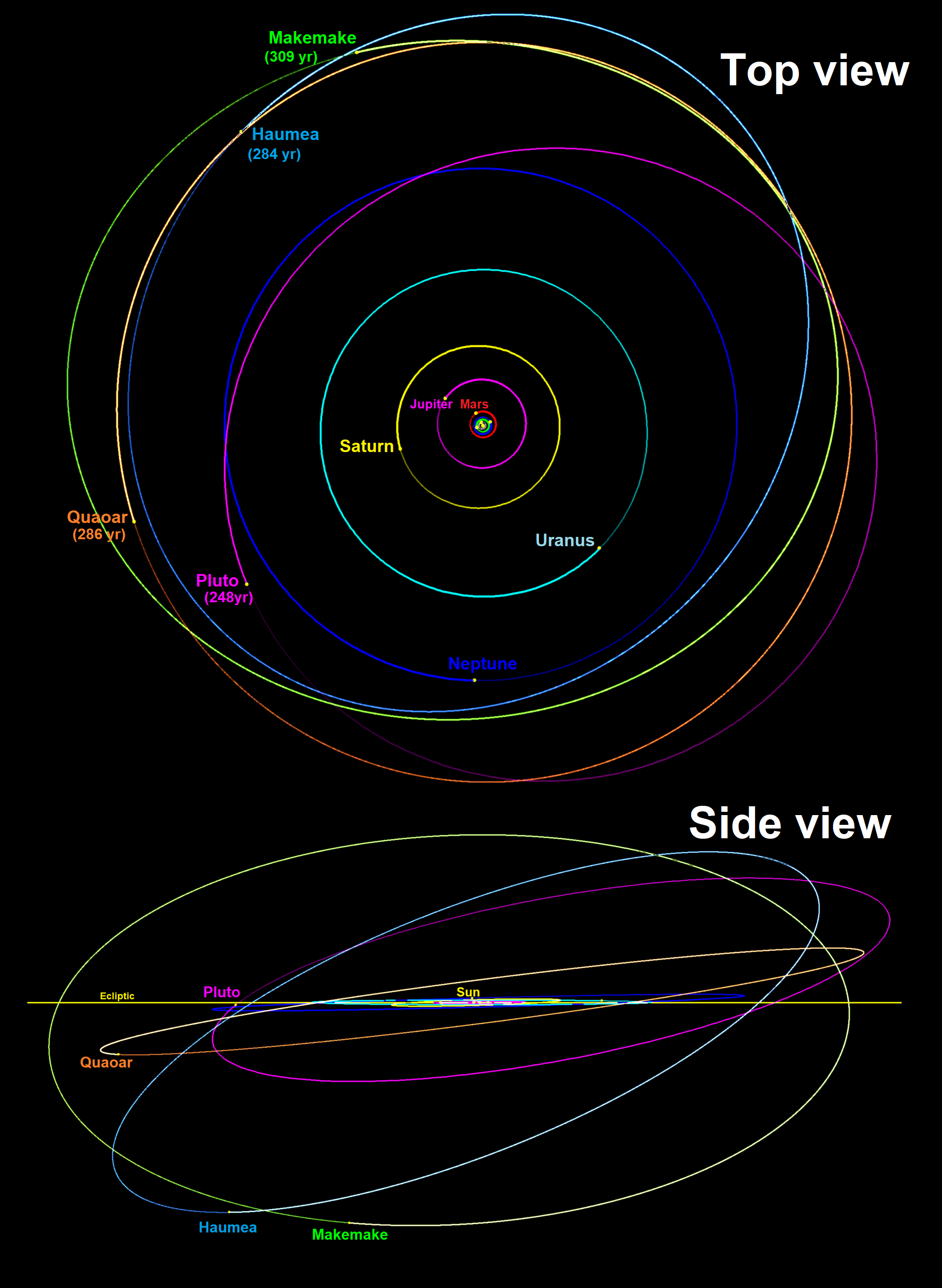 Quaoar Haumea Makemake orbits and positions for 1/1/2018